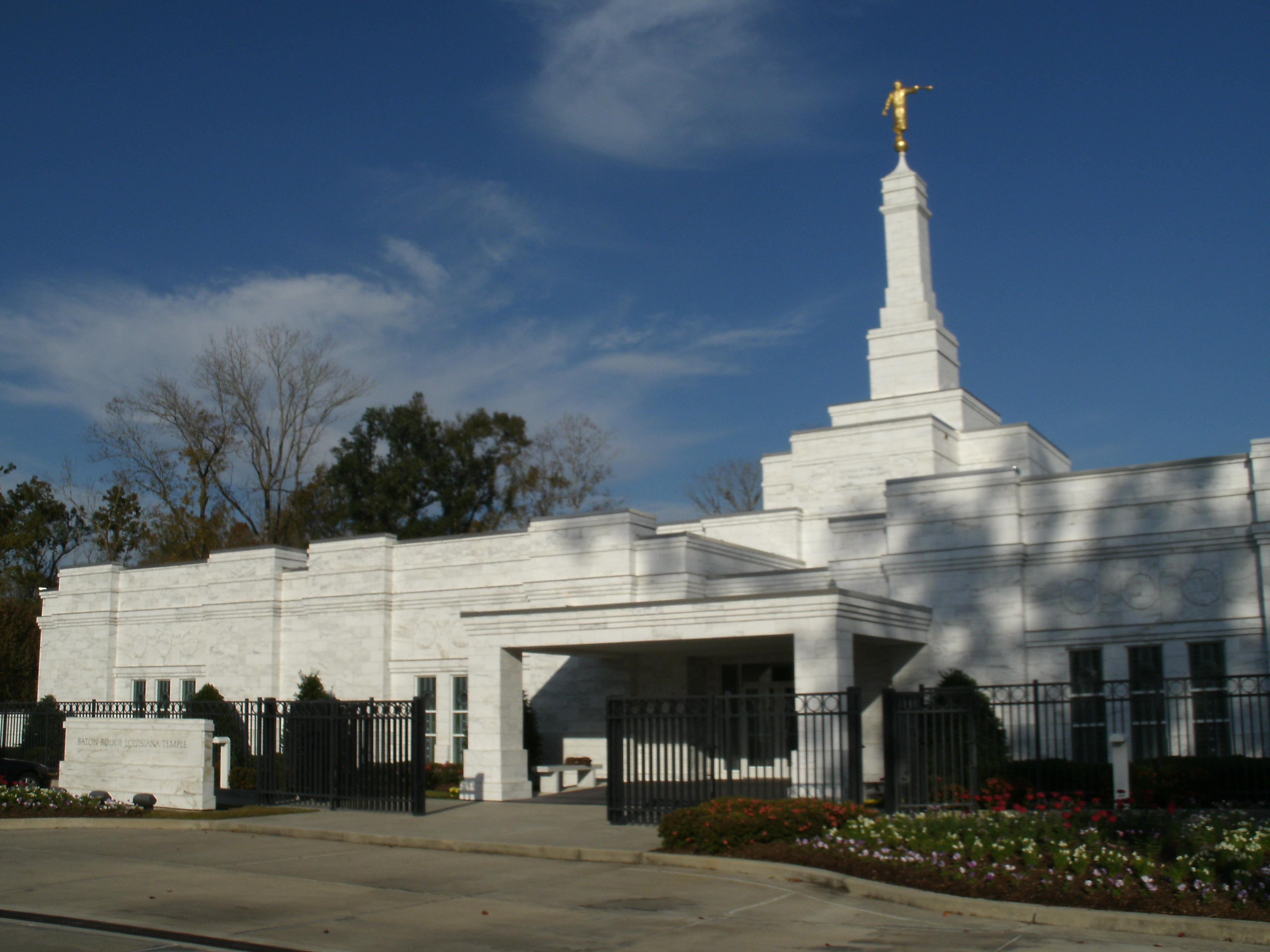 The Baton Rouge Louisiana Temple of The Church of Jesus Christ of Latter-day Saints.